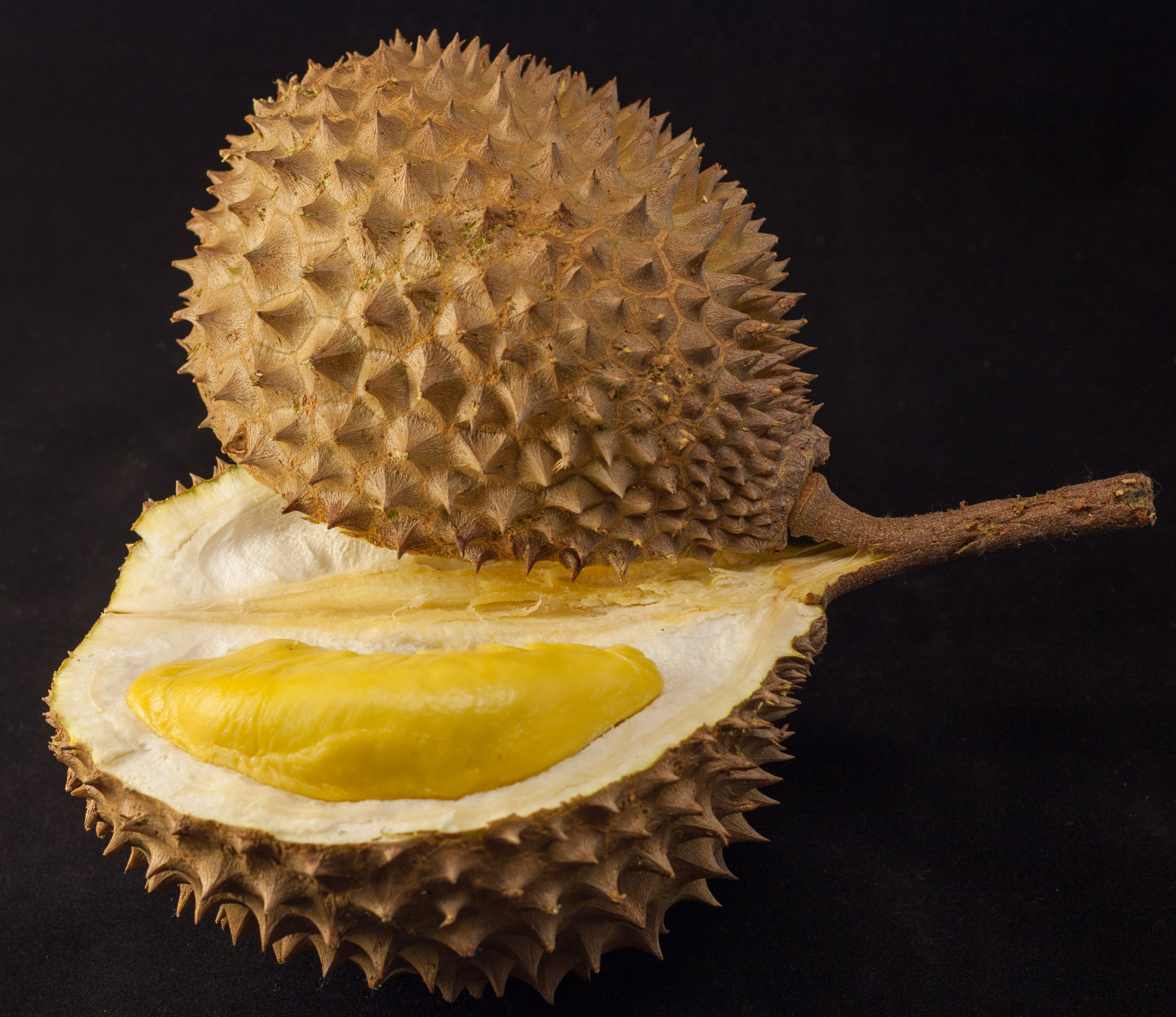 Durian